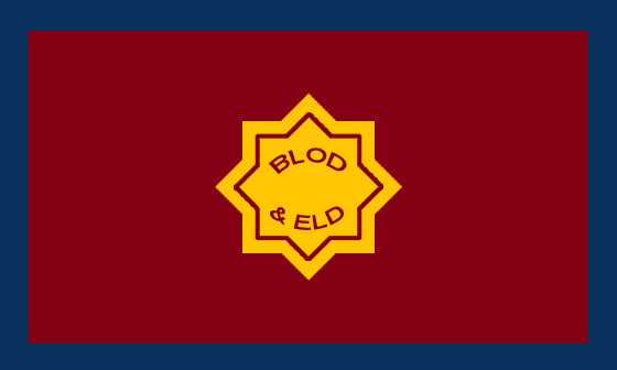 The Swedish flag of The Salvation Army.